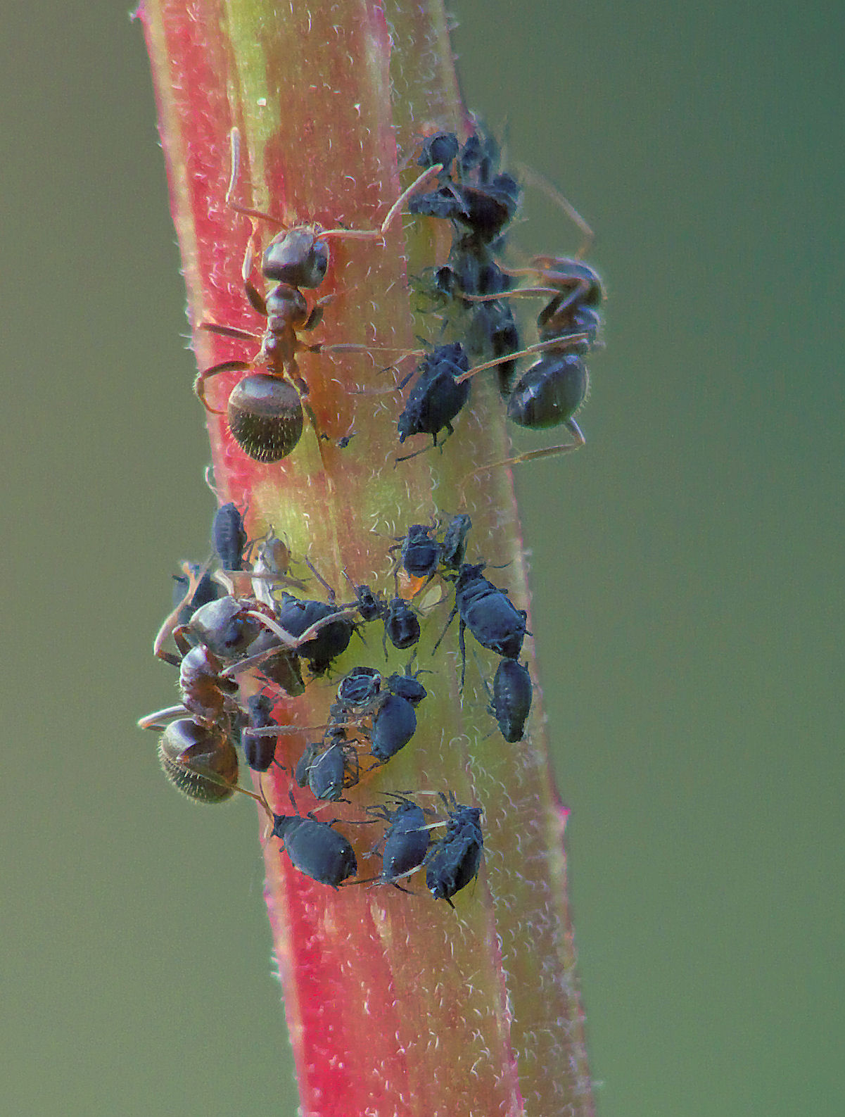 Epilobium tetragonum with Aphis fabae and ants